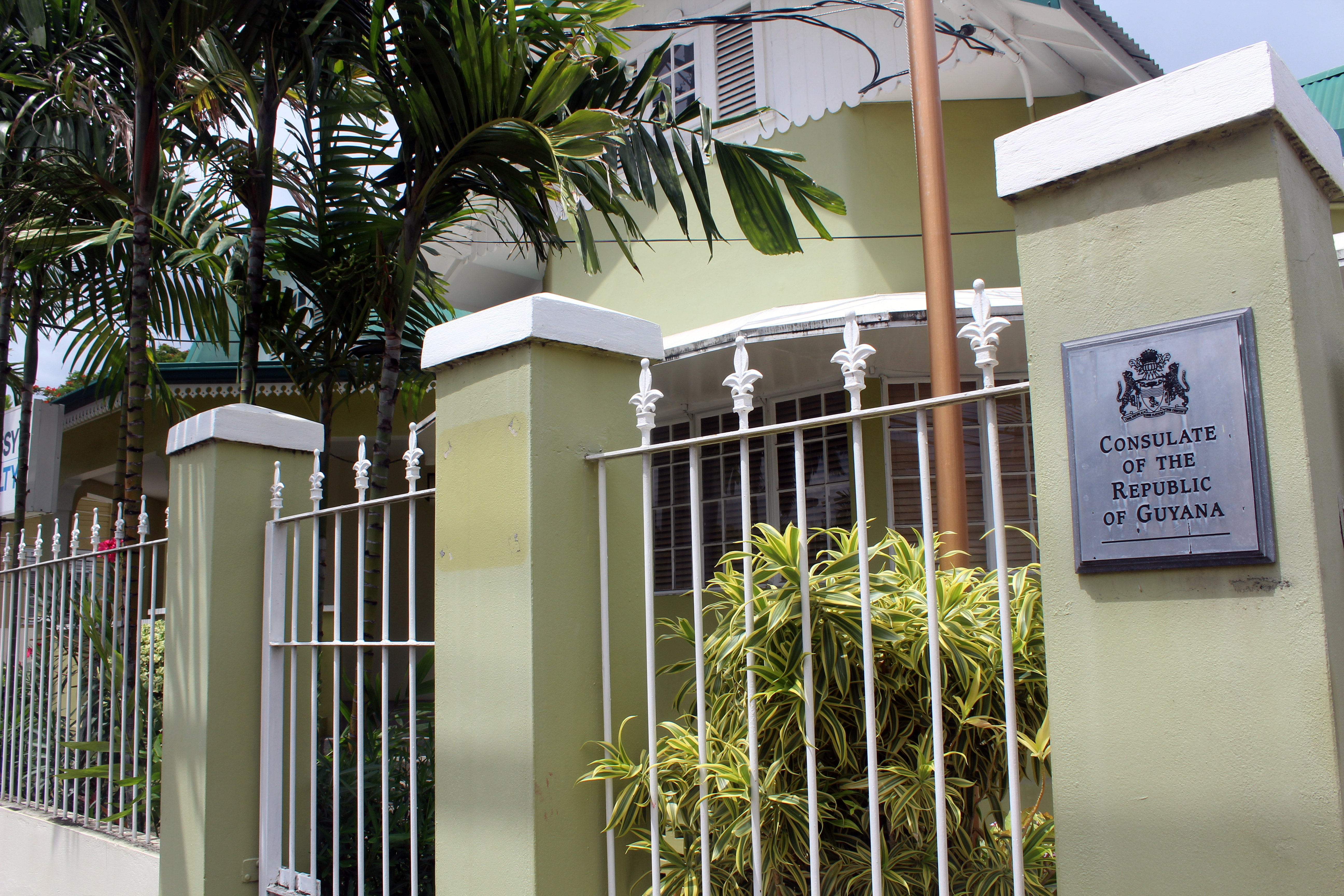 Guyanese Honorary Consulate in Port of Spain